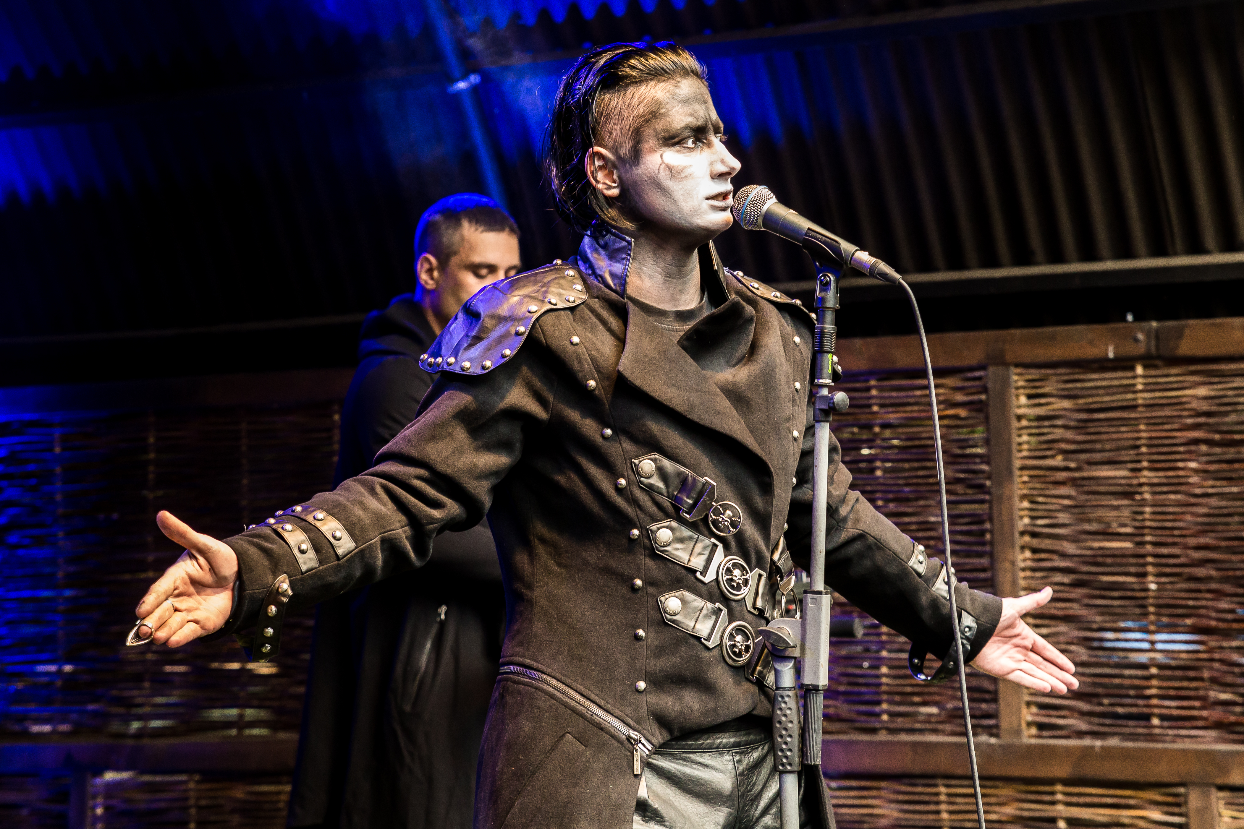 The Russian dark wave band Otto Dix at the Nocturnal Culture Night 12 2017 in Deutzen/Germany.